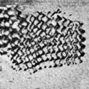 Cardium pottery of Neolithic - Printed decoraton with a mollusk shell (cockle)